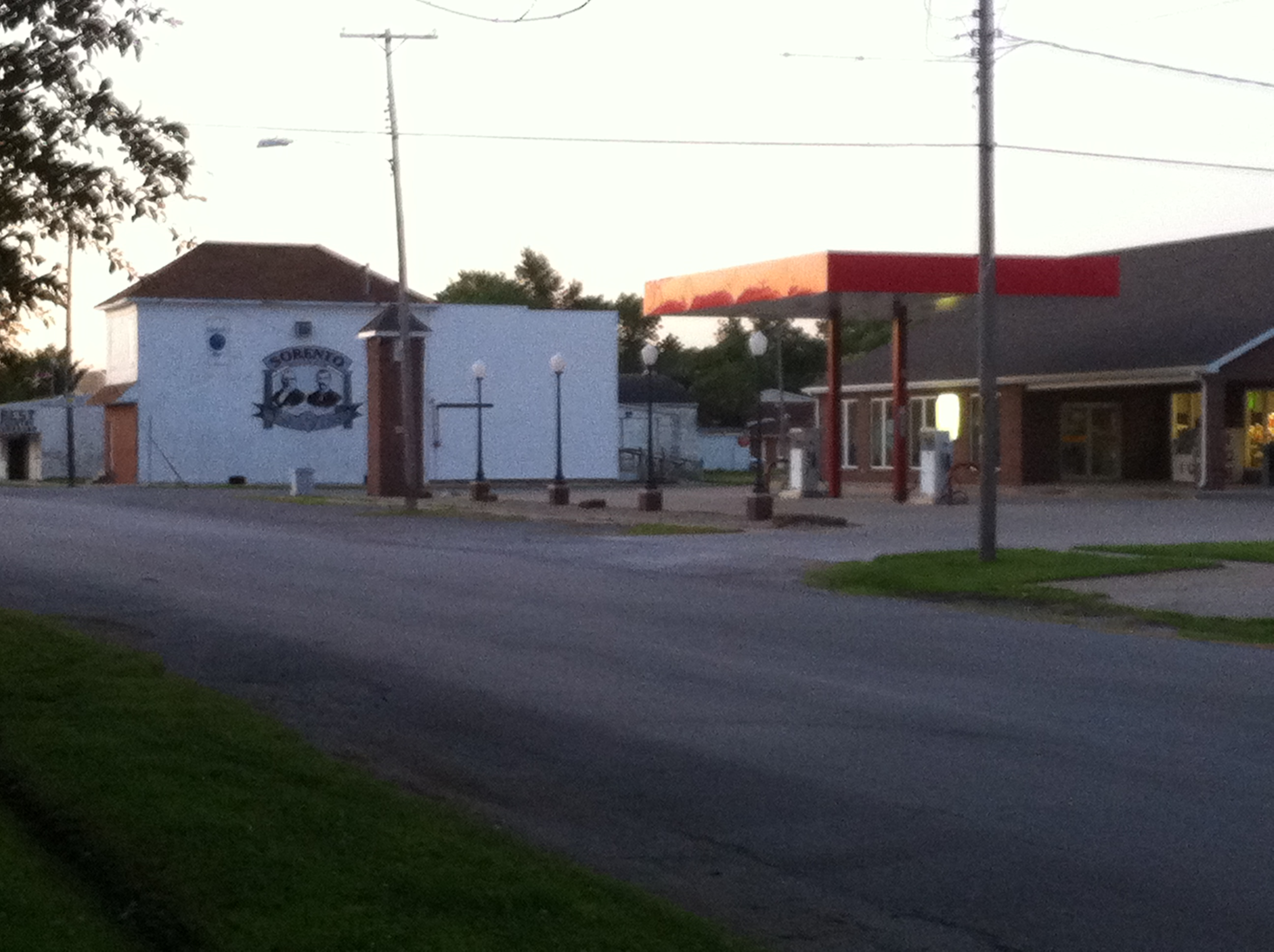 Sorento, IL in the evening.